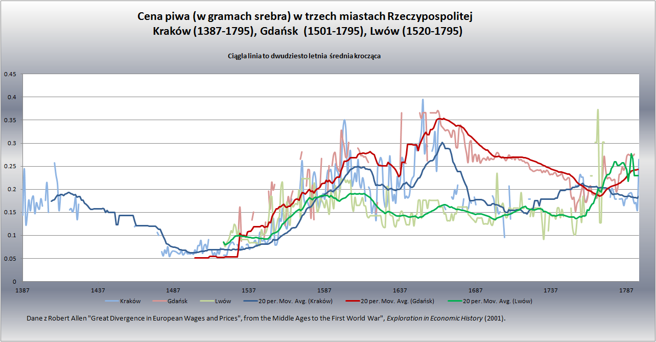 Price of beer in three Polish cities, 14th to end of 18th century